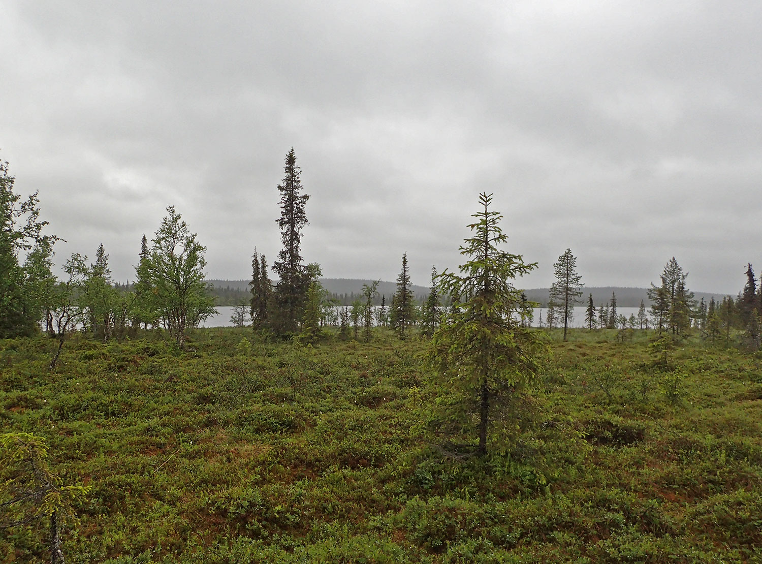 Lake Jorajärvi in Kiruna Municipality, northern Sweden, viewed fron NE.